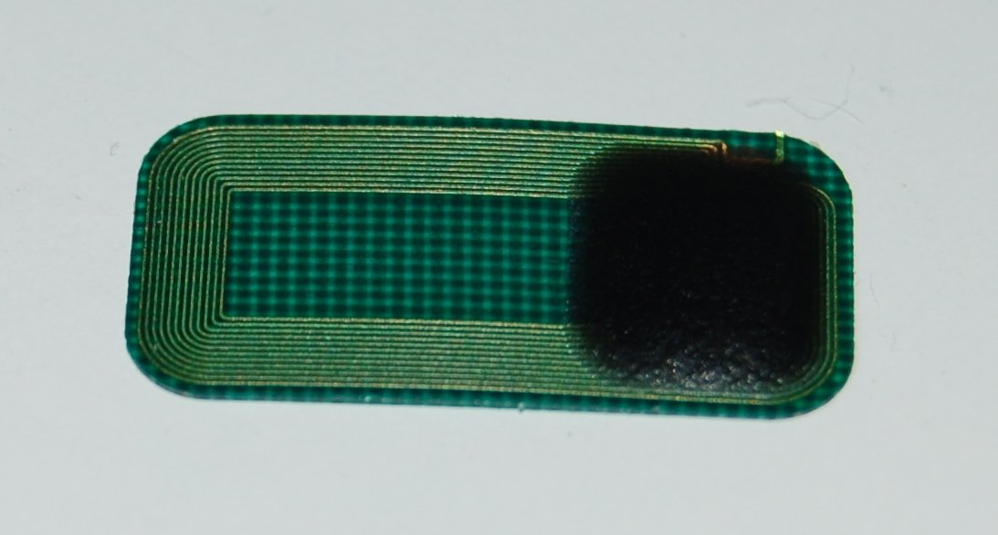 Cartridge Memory chip inside an LTO cartridge.